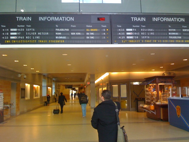 Trenton Transit Center train information boards. Listening to the announcement for the Silver Meteor, with stops down the Eastern Seaboard all the way to Florida, puts me in mind of traveling to faraway places.